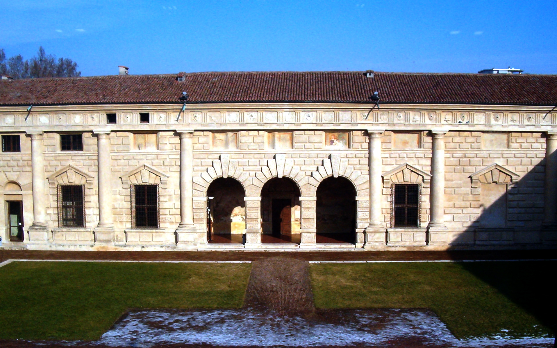 Palazzo Te in Mantova, Italy - Photo taken by Marcok of wikipedia on January 7, 2006